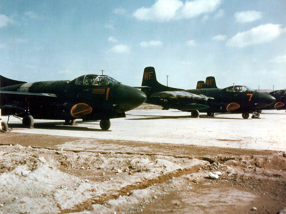 Four Douglas F3D-2 Skyknight night fighters of Marine night fighter squadron VMF(N)-513 "Flying Nightmares" parked are parked on a flight line at Pyeongtaek, Korea (K-6), in 1952-53.